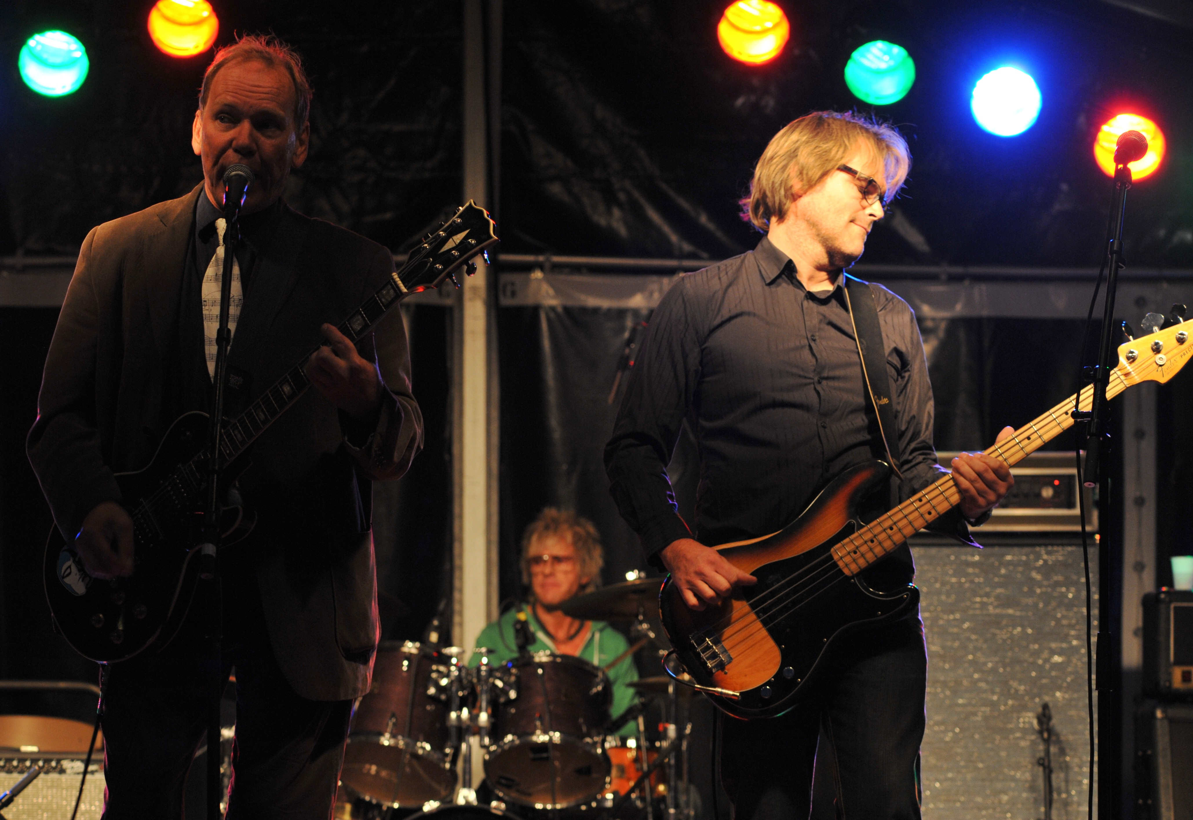 Torsson, Swedish band, at the Lund Culture Night in 2009. Pictured are Bo Åkerström, Sticky Bomb and Dan Persson.